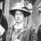 1911 L-R Jeanie Spence, Mrs Lamont, Agnes Brown, Mary Macarthur, Kate McLean, Rachel Devine at the STUC conference Scottish Trades Union Council in Dundee. Dundee Advertiser on 27th April 1911 and was titled "Ladies of STUC in Dundee". Elsewhere it said Jeanie Spence (Jute and Flax workers, Dundee), Miss Lamont (National Federation of Women Workers), Agnes Brown (National Federation of Women Workers), Mary McArthur (national leader and general secretary of the National Federation of Women Workers) and Rachel Devine (Jute and Flax Workers, Dundee) - one missing but job roles`